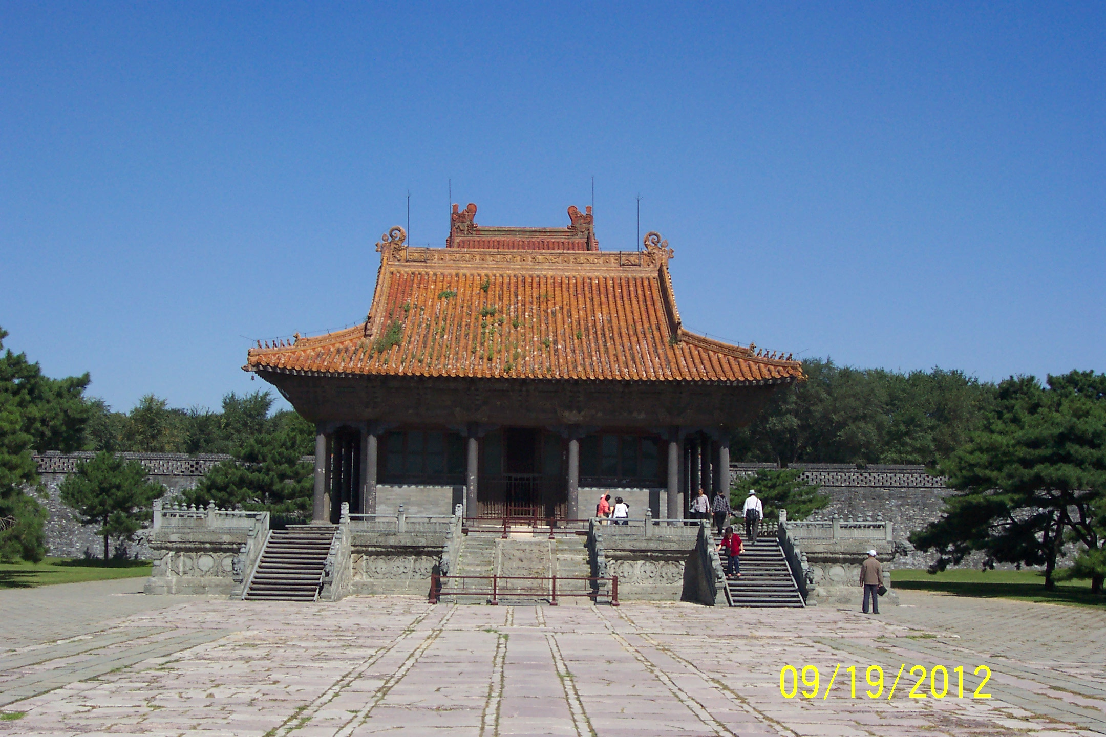 Square City of Zhao Mausoleum (Qing Dynasty) close view